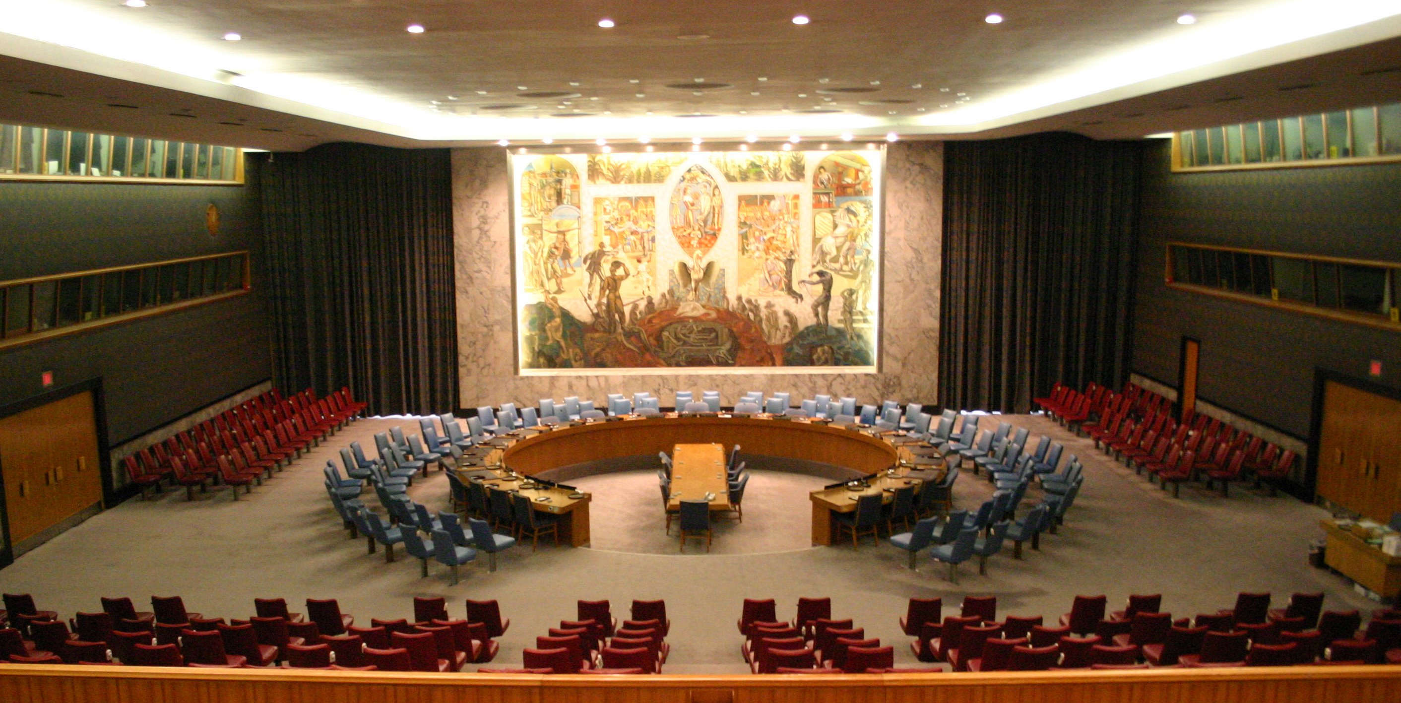 The United Nations Security Council Chamber in New York, also known as the Norwegian Room